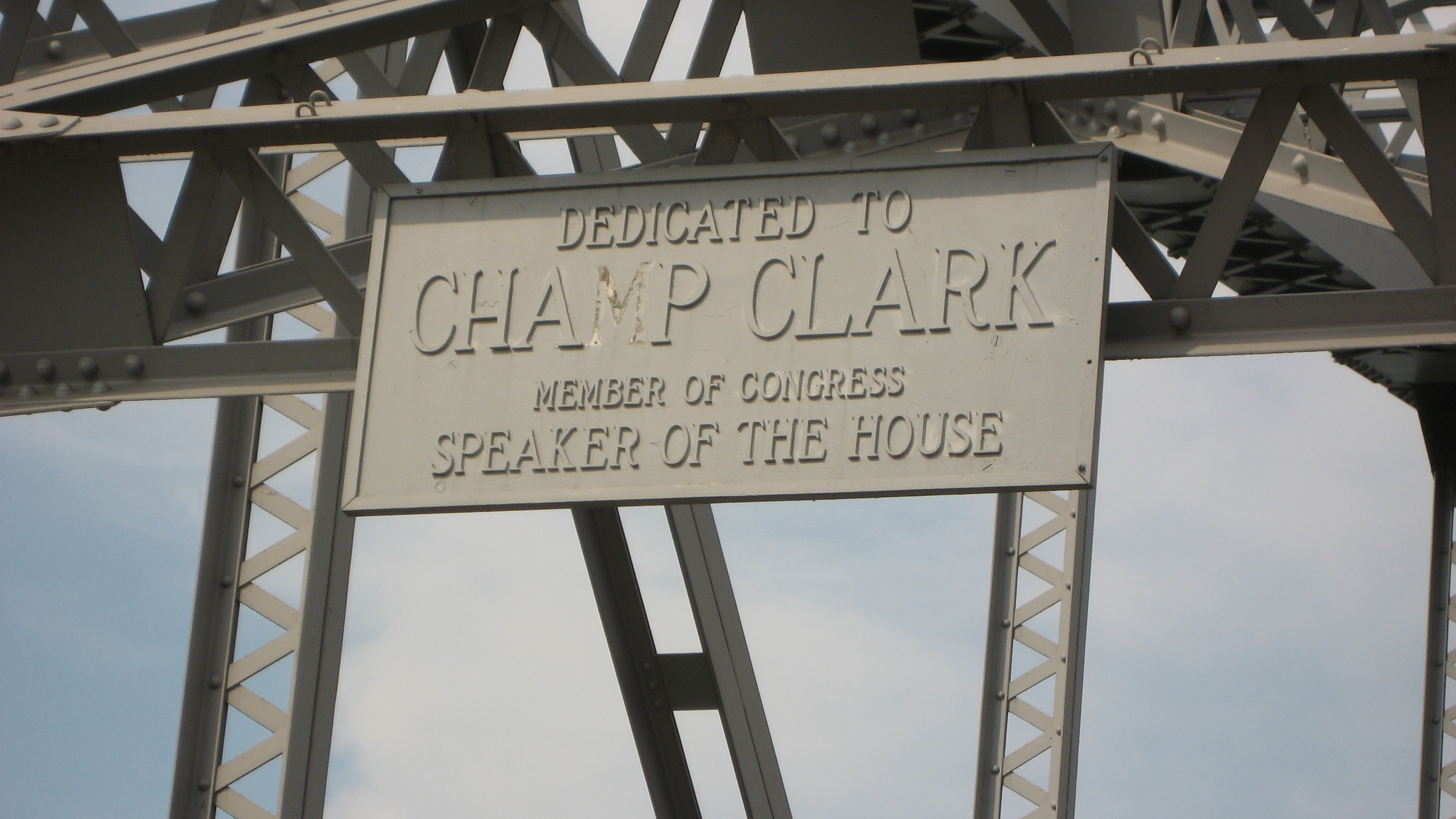 overhead plaque (nameplate) on bridge.